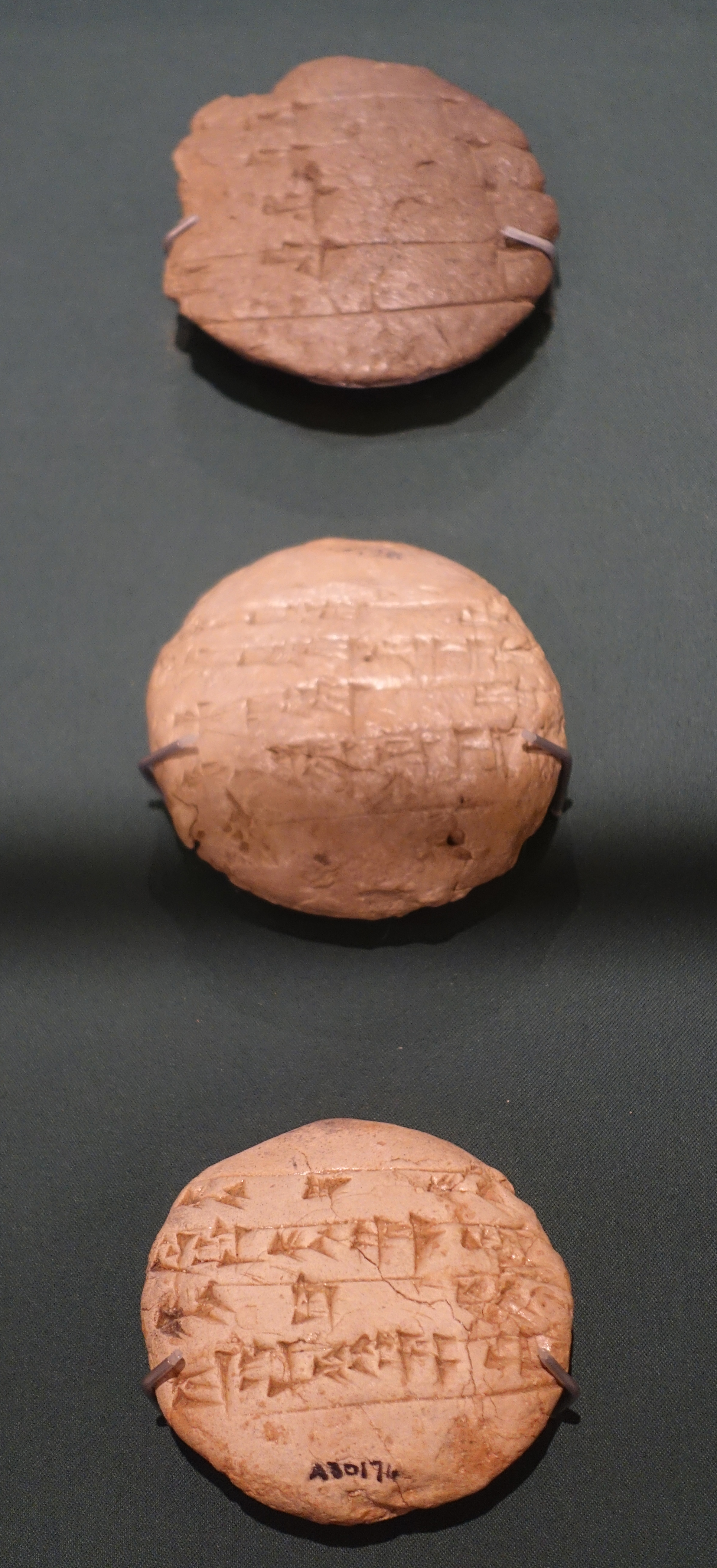 Exhibit in the Oriental Institute Museum, University of Chicago, Chicago, Illinois, USA. This work is old enough so that it is in the public domain.